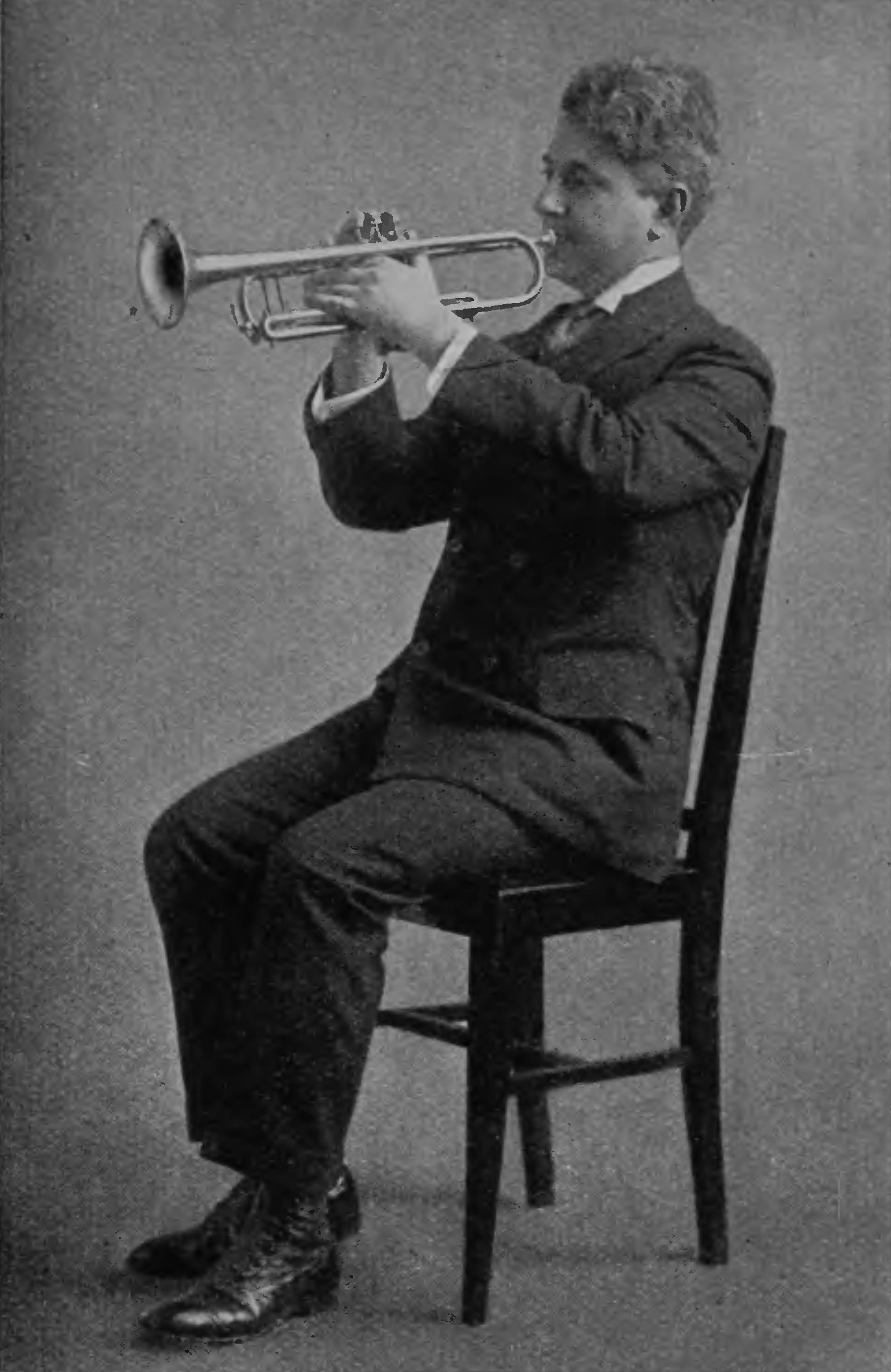 Edwin Franko GoldmanFormerlyMetropolitan Opera HouseOrchestra, N. Y.